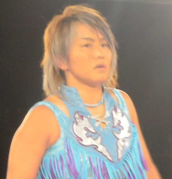 Japanese professional wrestler,Sonoko Kato.July 11 2010,OZ ACADEMY Shinjuku FACE.